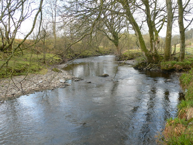 Afon Merddwr Flowing west from Pentrefoelas, to join the river Conwy.